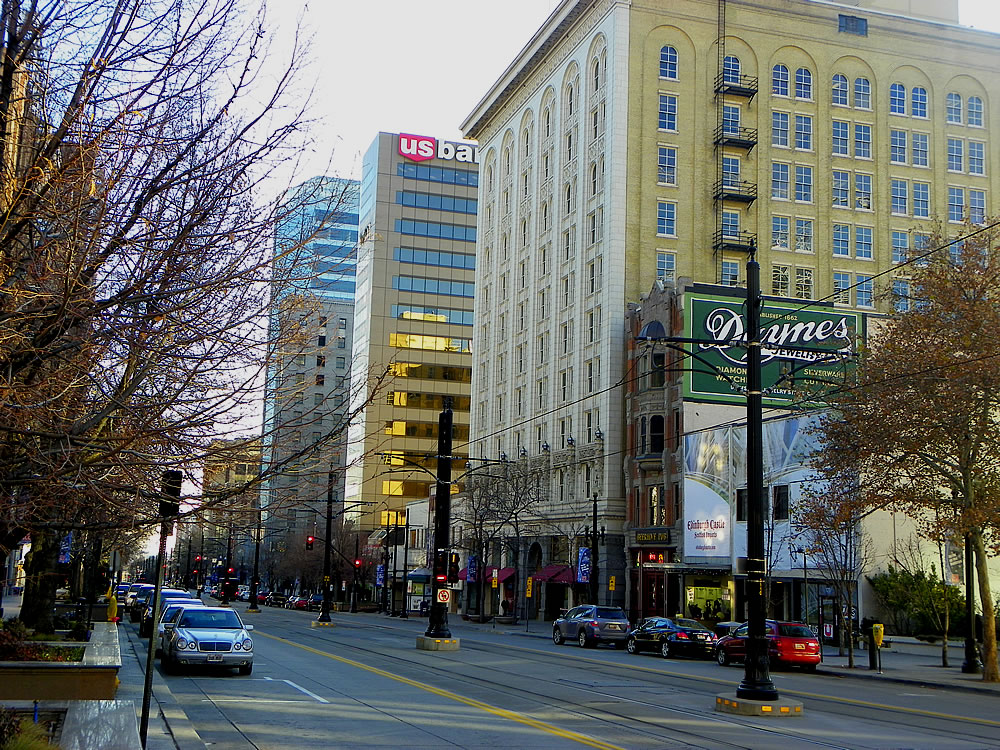 A look down Main Street of downtown Salt Lake City, Utah